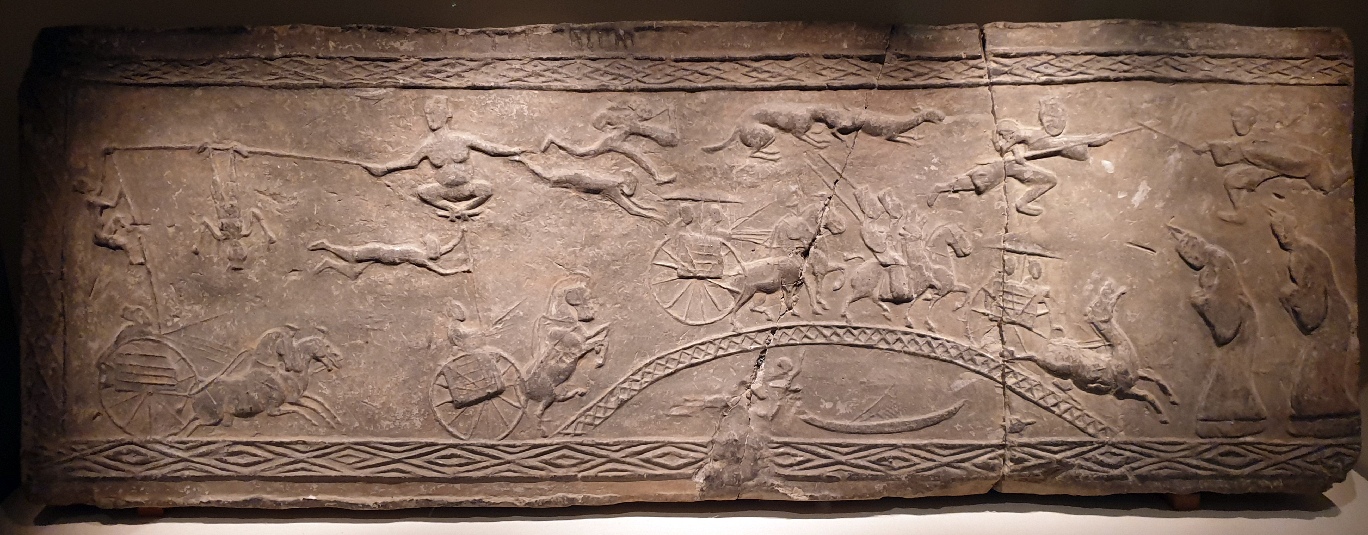 National Museum of China Native name中国国家博物馆Parent institutionMinistry of Culture and Tourism of the People's Republic of ChinaLocationBeijingCoordinates39° 54′ 12″ N, 116° 23′ 40″ E Established2003Web page control : Q1074318 VIAF: 124153942 ISNI: 0000 0004 0386 7291 LCCN: n2008003650 SUDOC: 127886605 BNF: 16566246d WorldCat institution QS:P195,Q1074318 Brick Relief with Acrobatic Performance, Han Dynasty (202 BC - 220 AD)